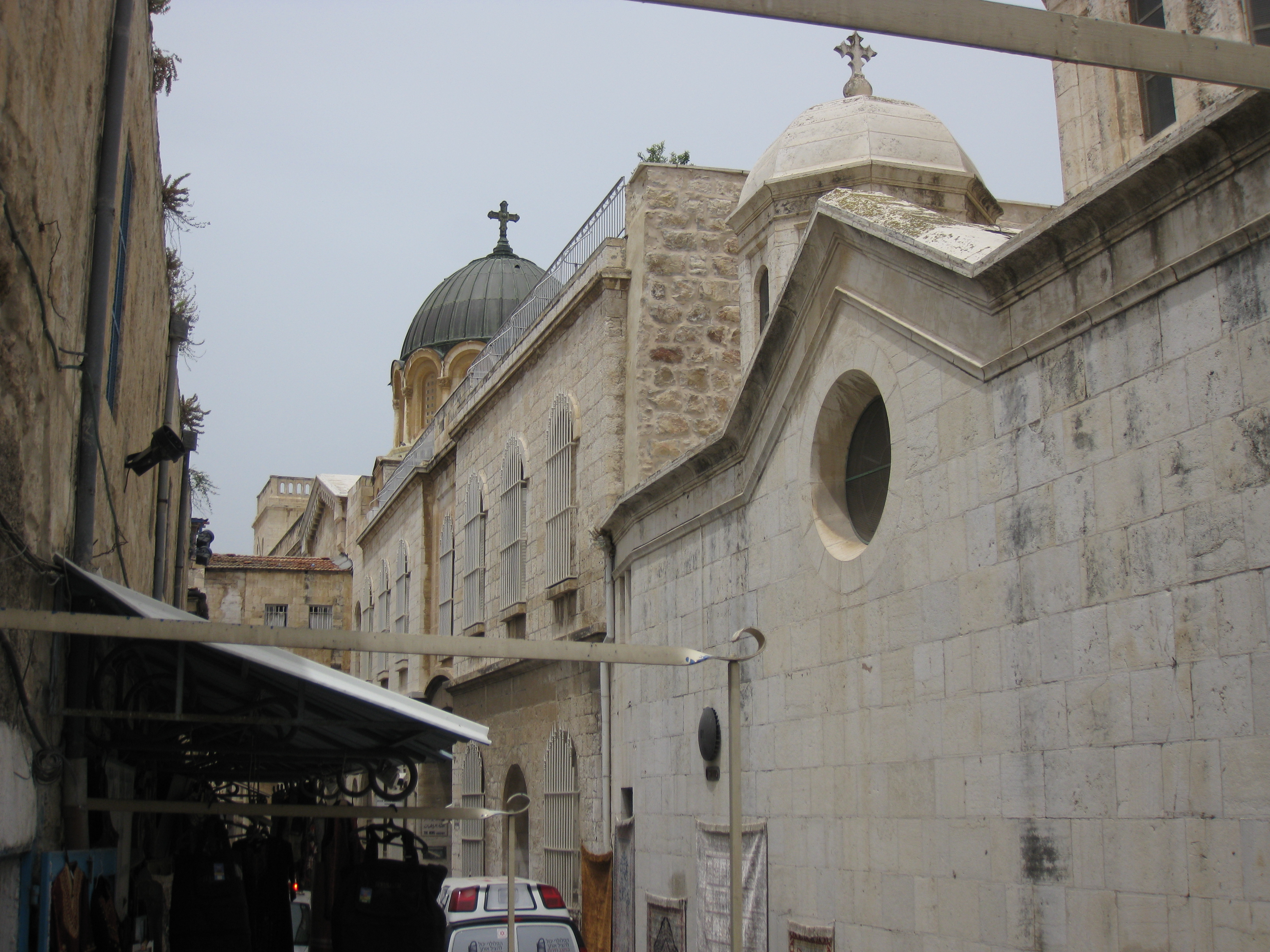 Old Jerusalem, Muslim Quarter - Church of the Condemnation and grey dome of the sisters of Sion's convent. הרובע המוסלמי בירושלים - כנסיית ההלקאה - התחנה השנייה של הויה דולורוזה